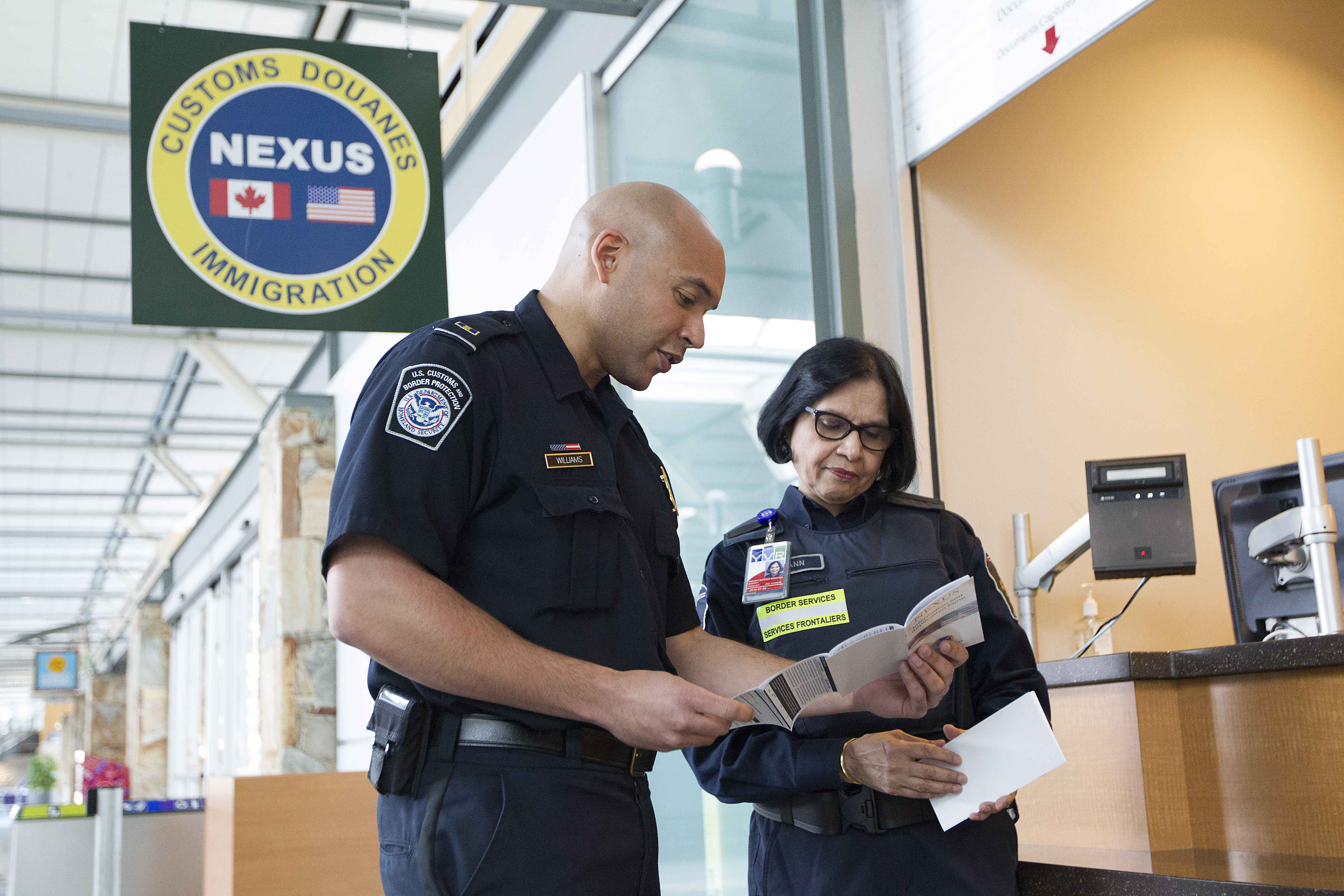 Vancouver, Canada - United States, Customs and Border Protection CBP) and Vancouver, Canada Border Services Agency (CBSA) work together for border crossing efficiency. United States and Canada Customs work together in the Vancouver International Airport NEXUS office processing passengers. The NEXUS program allows low risk pre-screened travelers expedited processing when entering the United States and Canada. CBP Photographer: Donna Burton